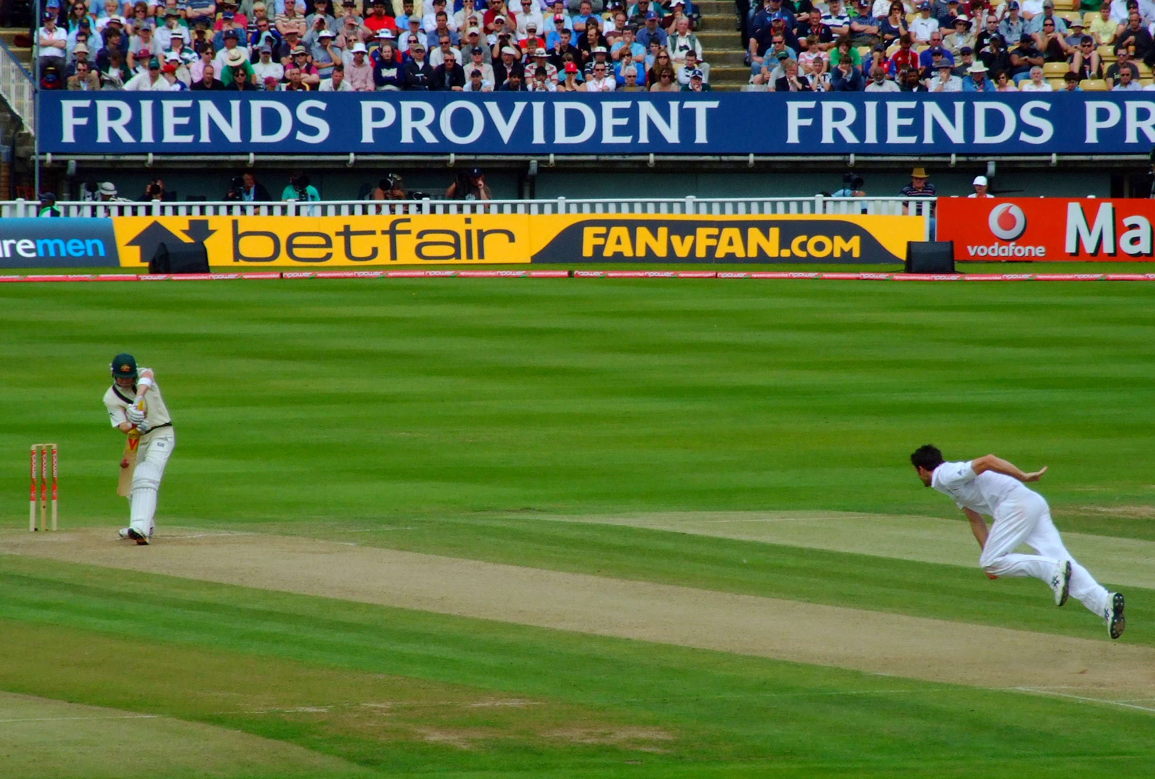 5th Day, 3rd Test: England v Australia, Edgbaston, 3rd August 2009 Michael Clarke faces James Anderson